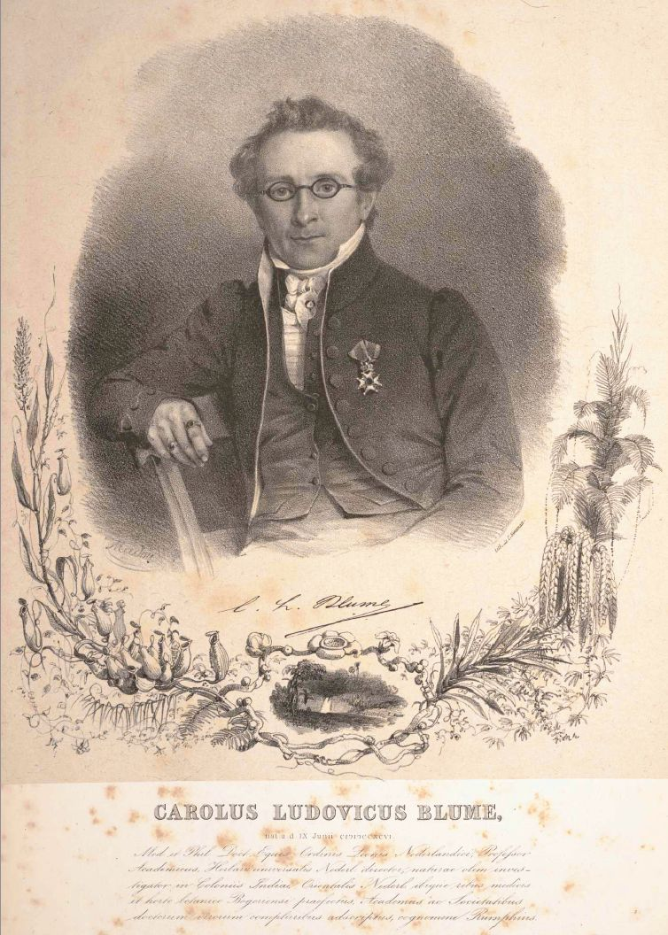 Rumphia, sive, Commentationes botanicÃ¦ imprimis de plantis IndiÃ¦ Orientalis :tum penitus incognitis tum quÃ¦ in libris Rheedii, Rumphii, Roxburghii, Wallichii aliorum recensentur /scripsit C.L. Blume cognomine Rumphius.By:Blume, Karl Ludwig,1796-1862.Arckenhausen.Henry, AimeÌ ,1801-1875.Payen.Sulpke, C. G.Publication info:Lugduni Batavorum [Leiden, the Netherlands] : [s.n.], 1835-48